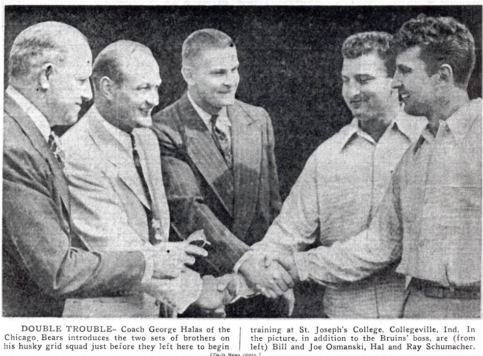 Harold and Ray Schumacher signed by George Halas, meet Bill and Joe Osmanski